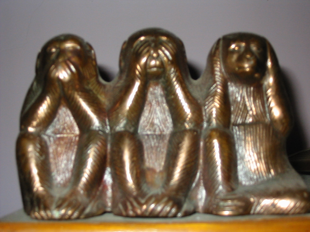 The three wise monkeys, "See no evil, hear no evil, speak no evil" Gandhian advice to follow three monkeys - Don't talk 'wrong', Don't see 'wrong, Don't listen 'wrong'!